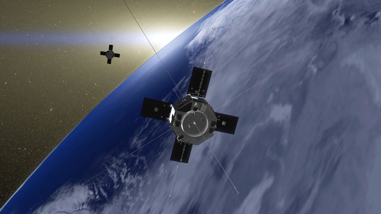 Artist's rendition of Van Van Probes A and B (formerly known as Radiation Belt Storm Probes (RBSP)) in earth orbit.